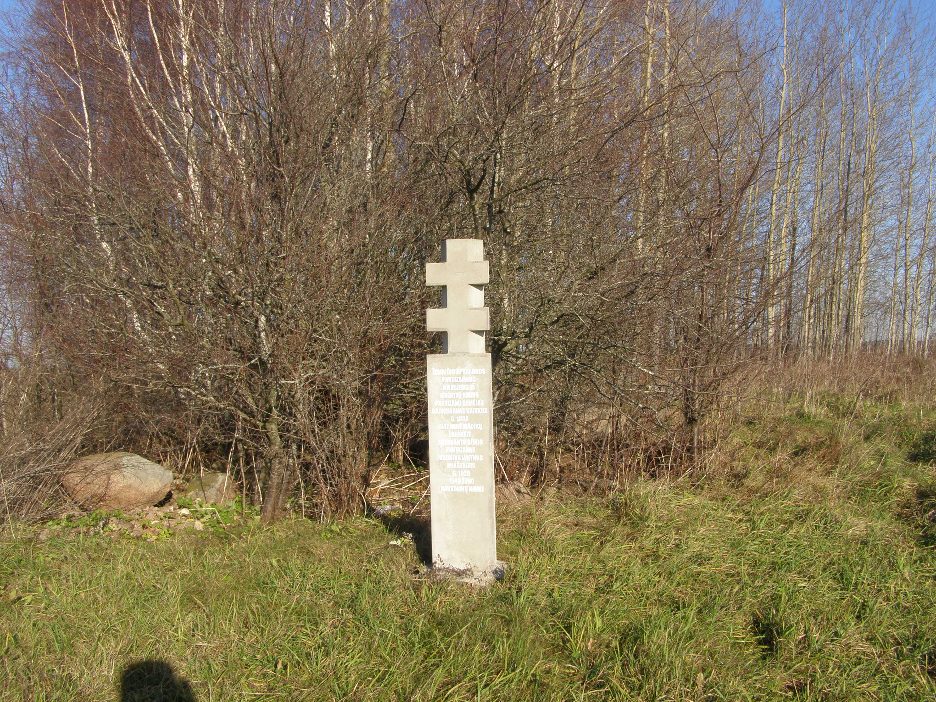 Jedžiotai, Skuodas district, LithuaniaLietuvių: Tipinis atminimo ženklas rezistentams Vaitkams atminti, Skuodo rajonas, Lietuva